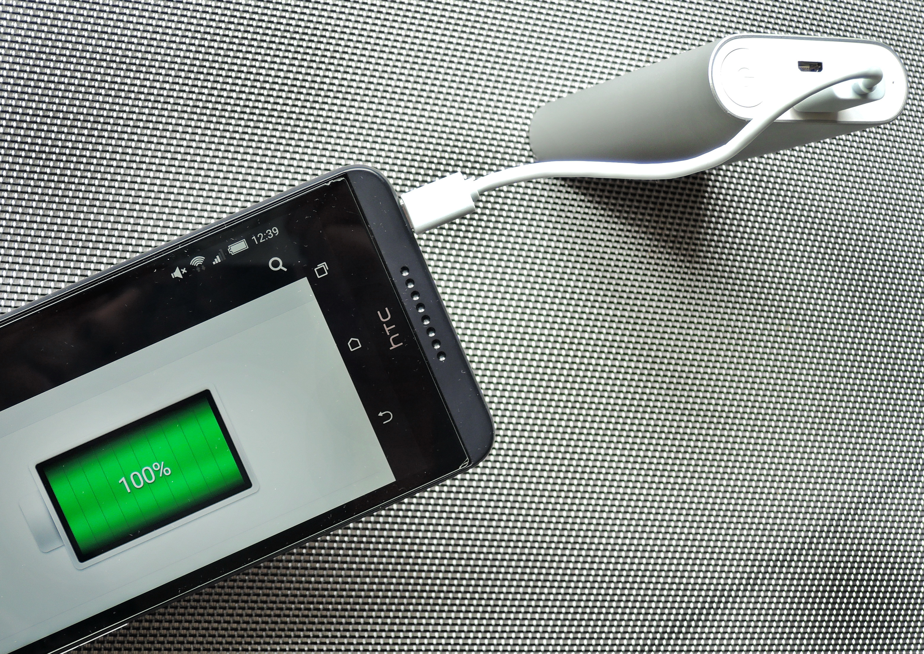 Charging a HTC Desire 816 smartphone with a Xiaomi 10000mAh USB power bank